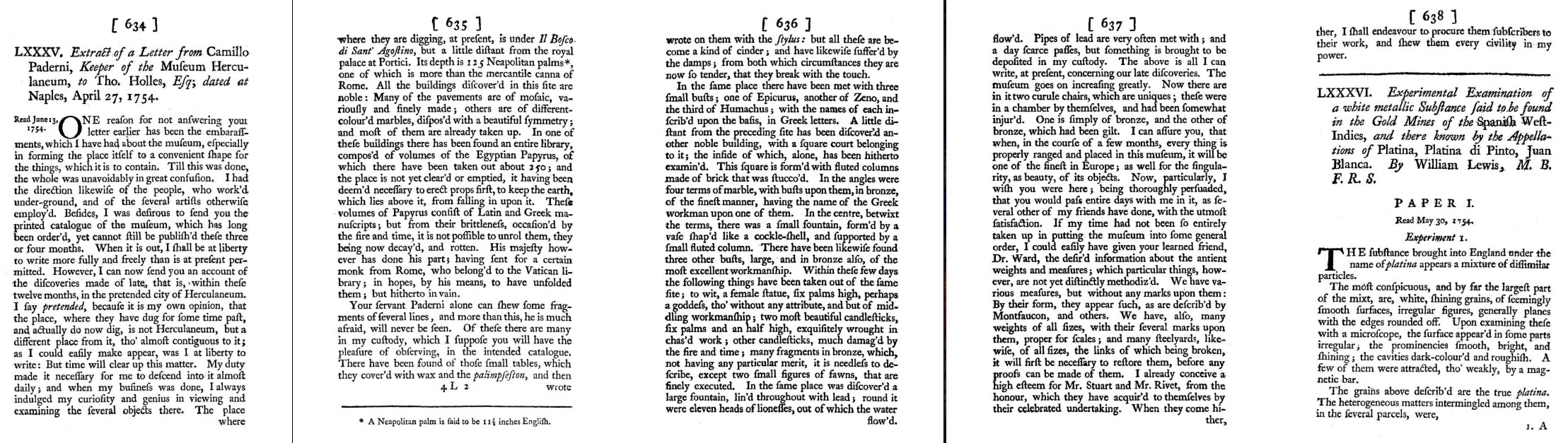 Esq; Dated at Naples, April 27, 1754. Paderni, C Philosophical Transactions (1683-1775). 1753-01-01. 48:634–638